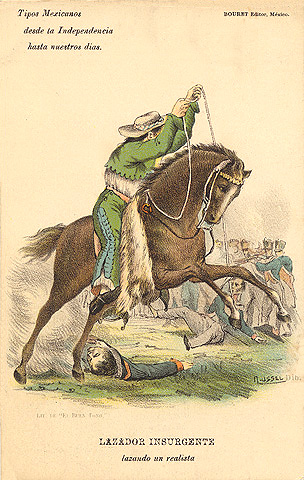 A Mexican ranchero removing an officer from the front of his battalion with a lasso, during the Mexican wars of independence, from the book Costumes civils, militaires et réligieux du Mexique (Belgium, 1828)